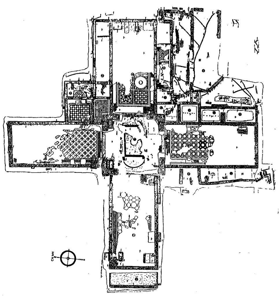 The Kaoussie Church, also known as the martyrion of Saint Babylas, in Antioch (Syria)